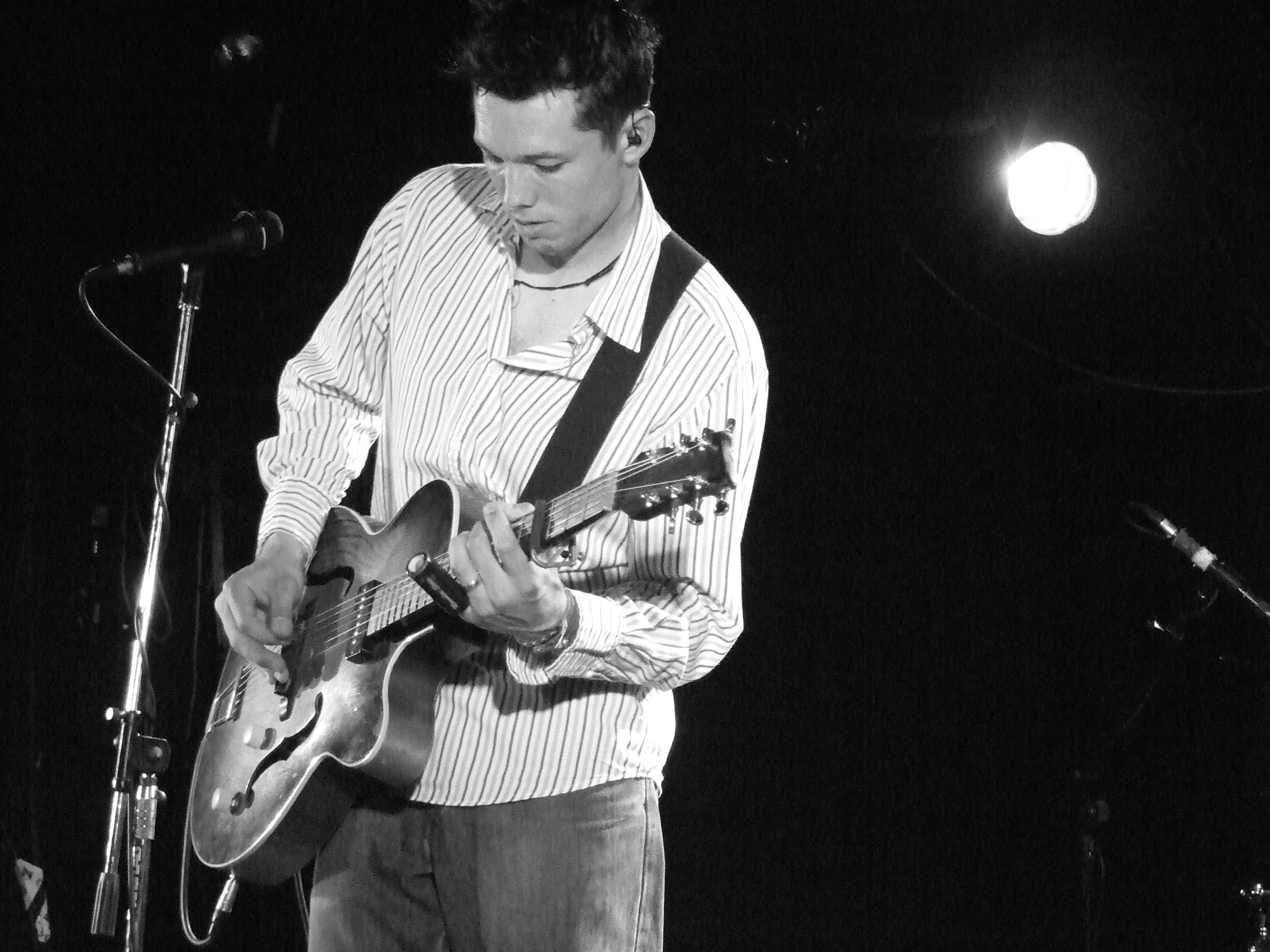 Aynsley Lister performing live at the Boardwalk, Sheffield, UK on 12 April 2007